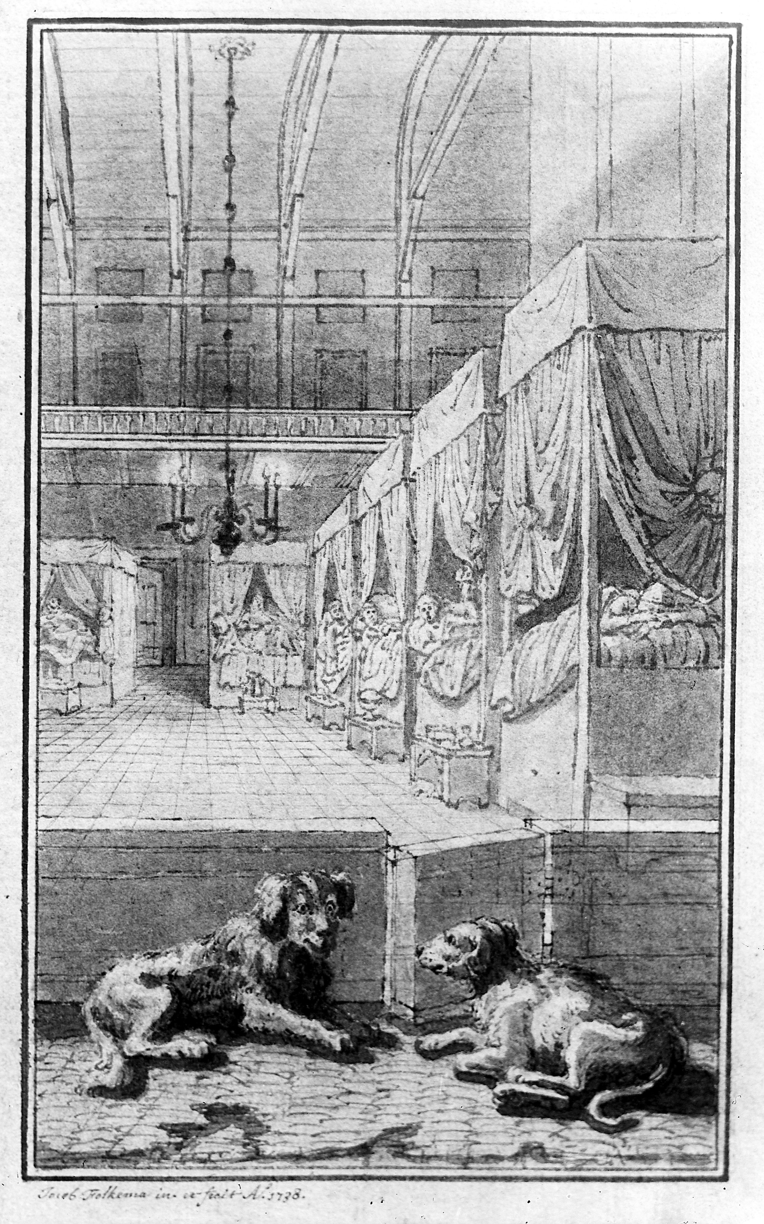 Amsterdam Hospital, scene in a ward. Wellcome Images Keywords: Jacob Folkema; Holland; Institutions